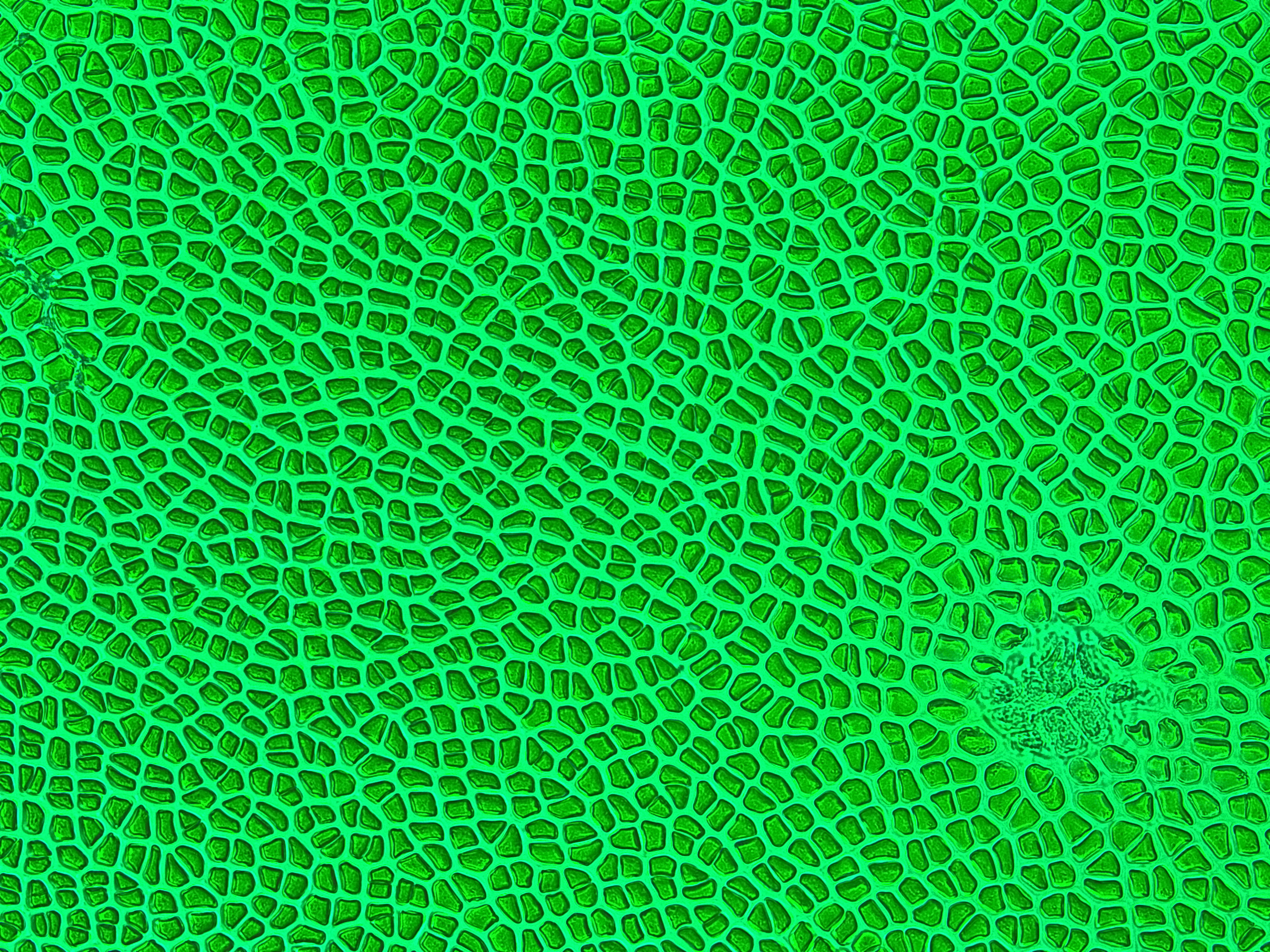 Nori for sushi under an optical microscope, magnification 200x.